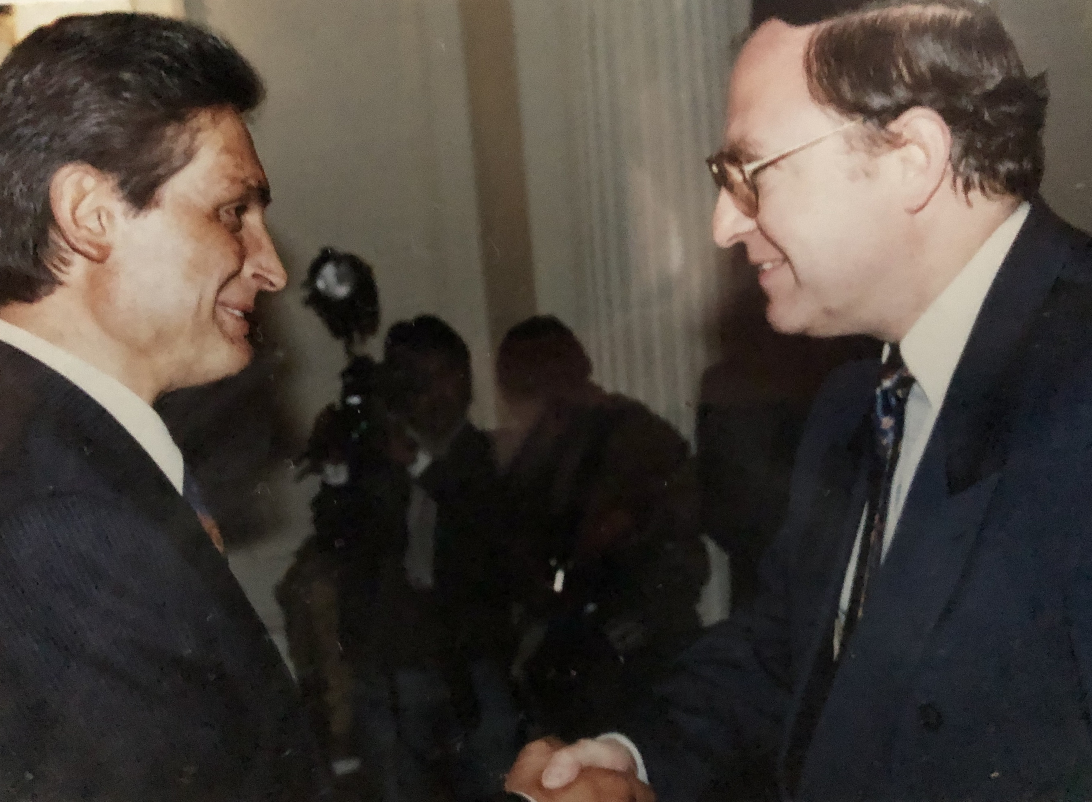 National Day of Bolivia; reception by the President